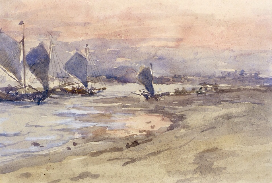 Sailboats at Sunset, Ilolio